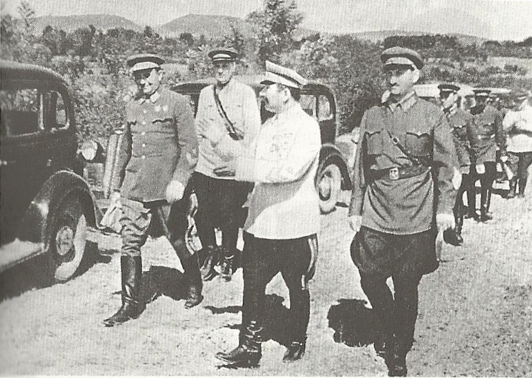 Mikhail Efremov with Semyon Budyonny on a military exercise.